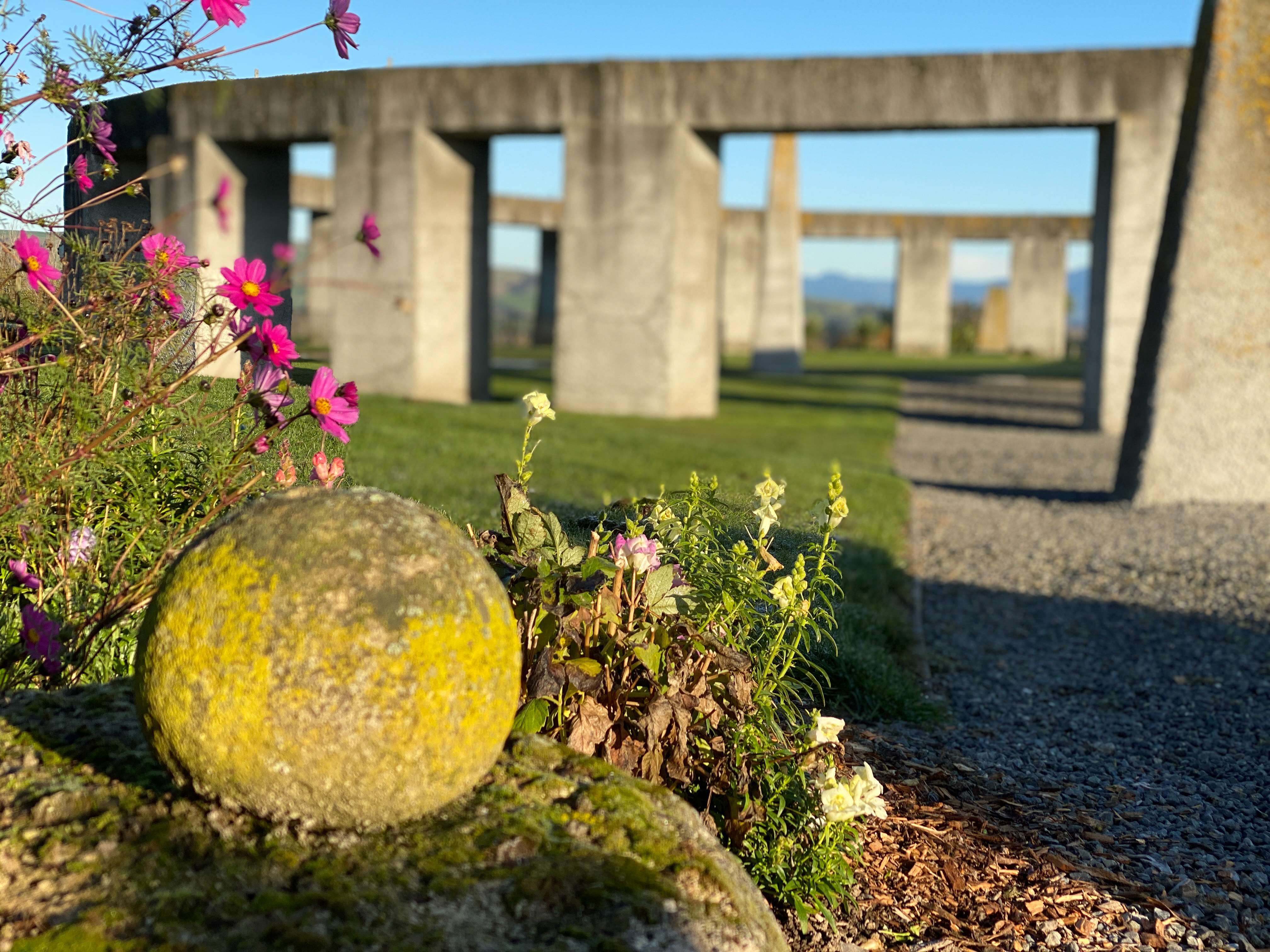 Stone sculptures around the Equinox Heel Stone